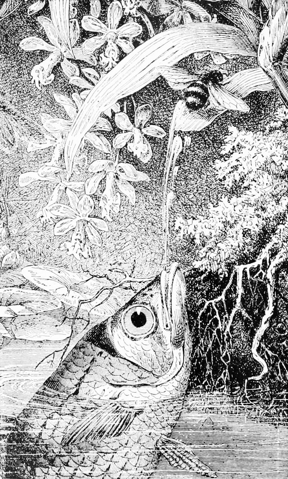 Toxotes throwing water at insects